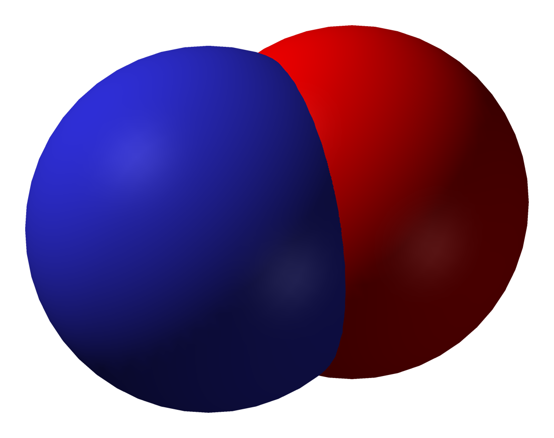 Space-filling model of the nitric oxide molecule.